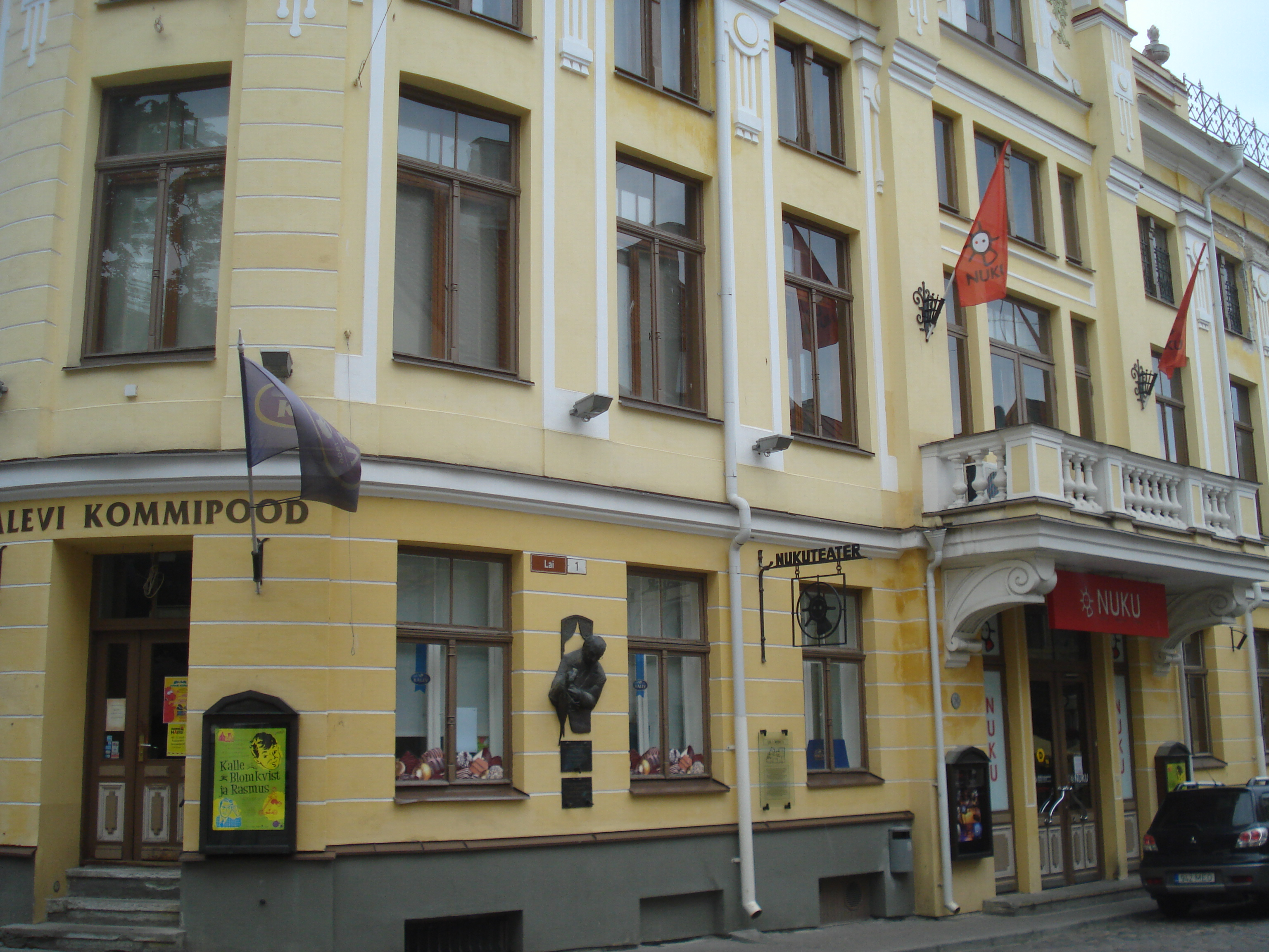 Estonian Puppet Theatre in Tallinn (Eesti Nuku- ja Noorsooteater). Lai 1